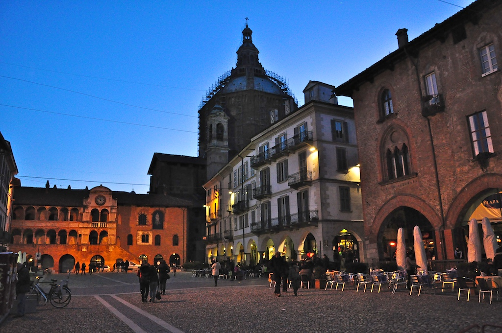 Nightfall in Piazza della Vittoria (Main central place of Pavia)